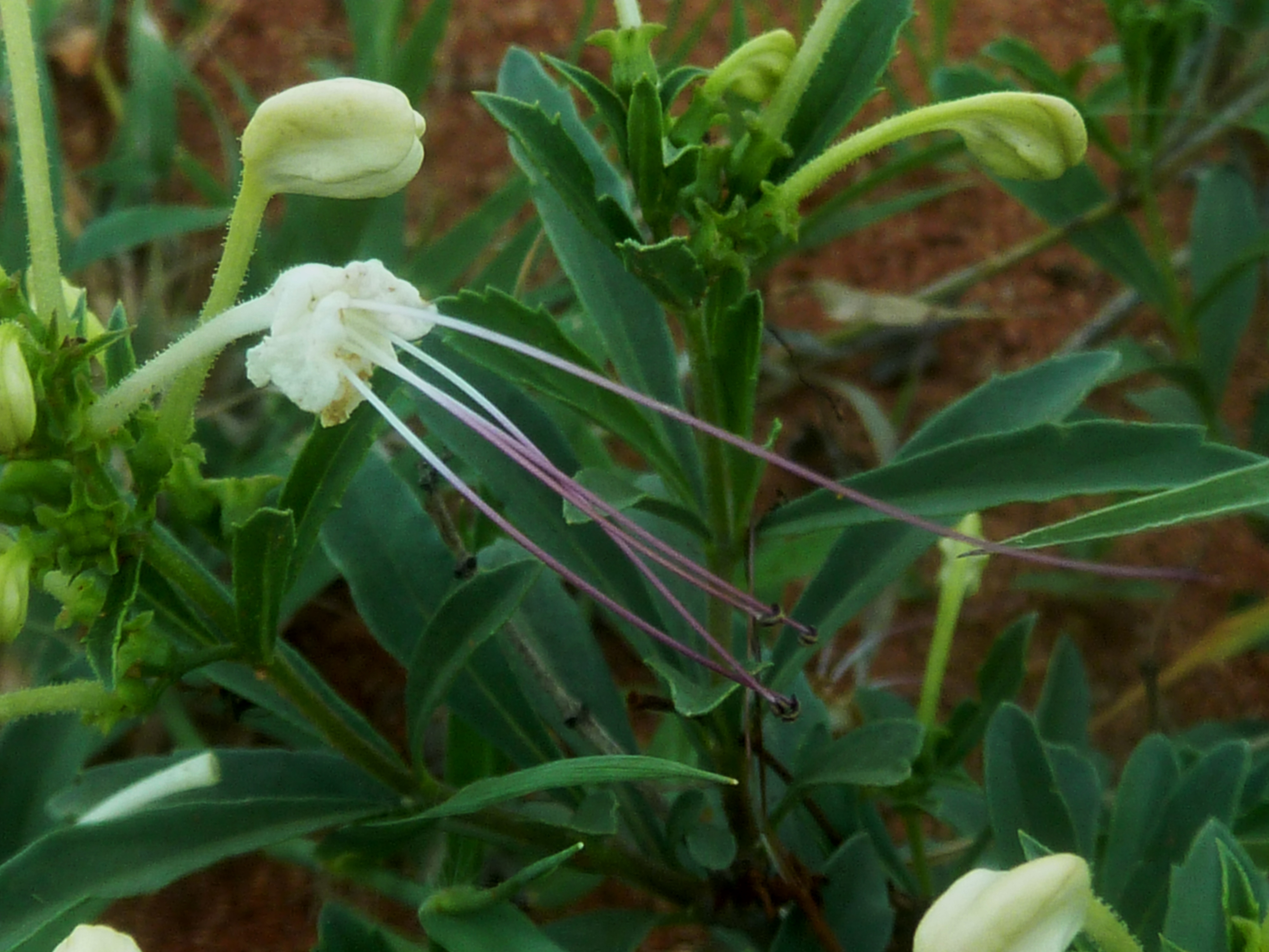 Flowers of Dwarf cat's whiskers in Borakalalo Game Reserve, North West, South Africa